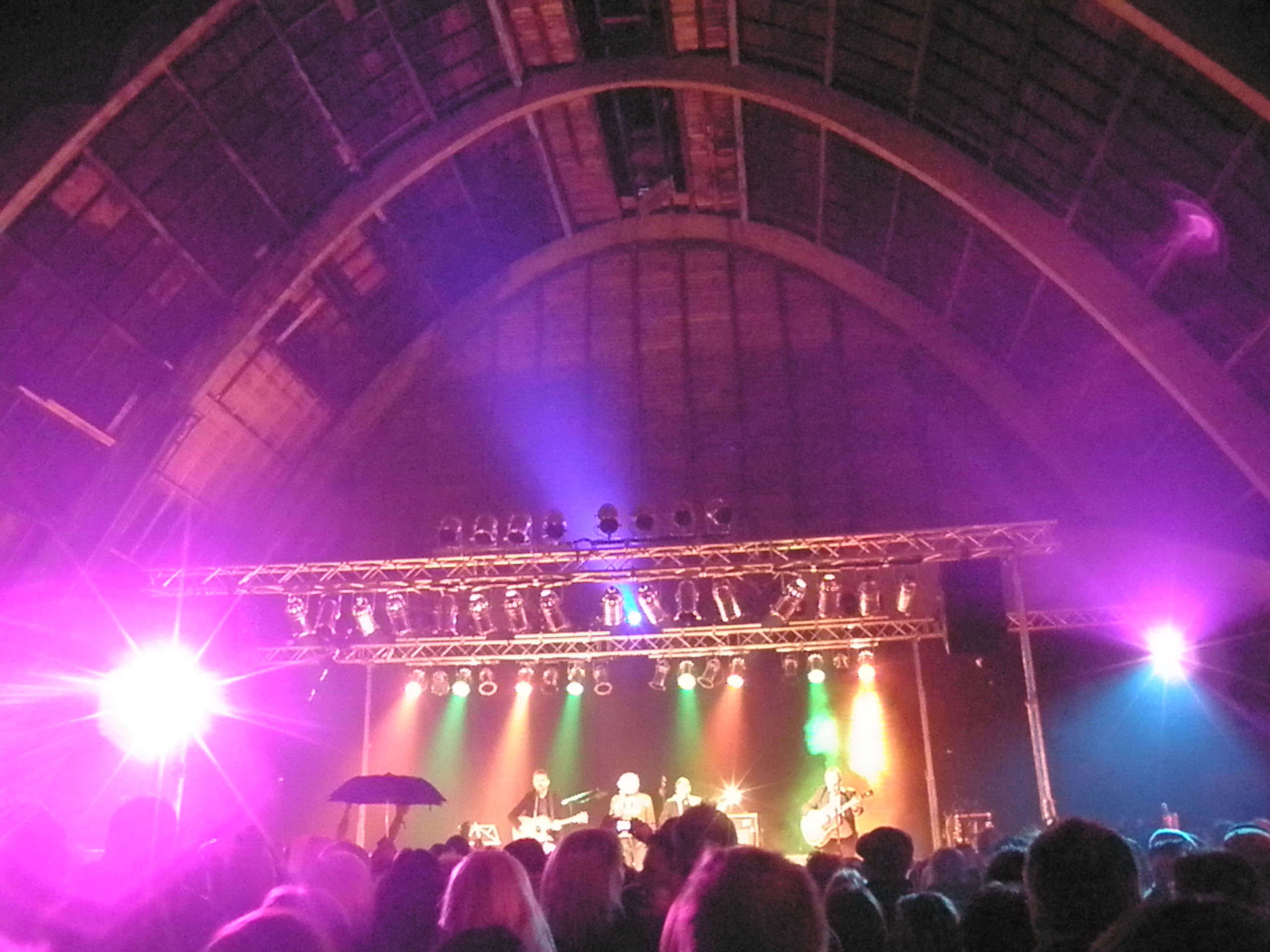 This photo was taken at the Salt Silo concert in Drelnes near Tvøroyri in Suðuroy in the Faroe Islands. The band is called Harkaliðið, the singer is Annika Hoydal, she is also a well known actress in Denmark. She is from the Faroe Islands, but she has been living in Denmark for many years. Harkaðilið gave out several records in the period 1969 to 1991. The other band members from Harkaliðið at this concert are: Jógvan Dahl, Kaj Johannesen and Eyðun Mohr Hansen. Many other Fareose bands and musicians performed at the concert, which was an aid concert in order to raise money so the old Salt Silo on Drelnes can be renovated into a concert hall and cultural center. At the moment of this concert the Saltsilo was a ruin and it was raining through the roof. Some people used umbrellas, one of them is visible on this photo in the left side of the photo. Føroyskt: Henda myndin er tikin 15. mai 2010 inni í Saltsiloini á Drelnesi í Trongisvági í Suðuroynni, tá stuðulskonsert var har til frama fyri Project Salt, sum arbeiðir við verkætlan sum hevur til endamáls at umvæla Saltsiloina, so bygningurin kann gerast ein stór konserthøll og mentanarhús. Saltsiloin er ein ruin, og tað regnaði eisini inn í siloina, meðan konsertin var, ein paraply sæst á myndini. Á myndini er orkestrið Harkaliðið sum fekk øll at syngja við til teirra kendu sangir. Tey sum vóru við orkestrinum til hesa konsertina eru: Annika Hoydal, Jógvan Dahl, Kaj Johannesen og Eyðun Mohr Hansen.